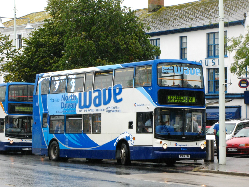 An ALX400 of Stagecoach South West (registration KN04XJM, fleet number 18137) in 'North Devon Wave' route livery calls at Bideford during its Ilfracombe-Barnstaple-Apploedore journey.